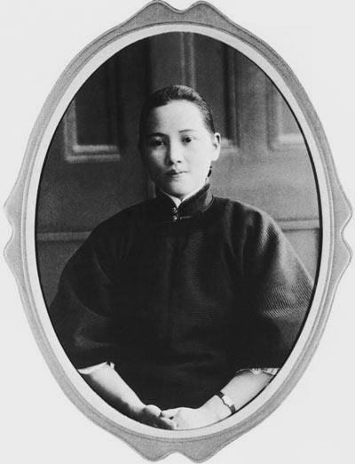 Soong Ching-ling